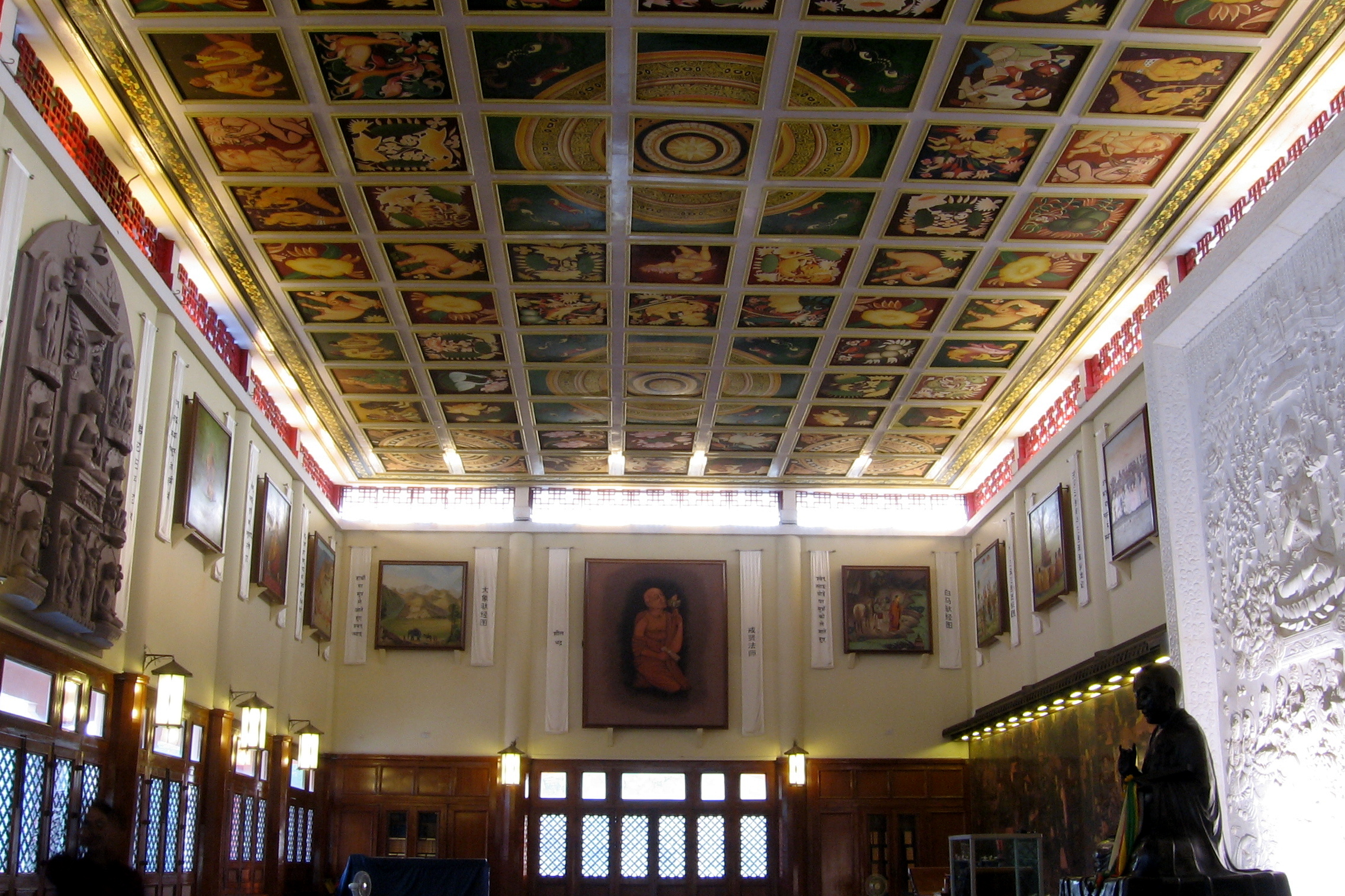 Located 1.3 km away from the ruins of Nalanda